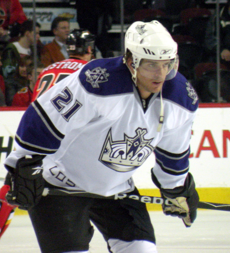 Los Angeles Kings defenceman Denis Gauthier during warmup prior to a National Hockey League game against the Calgary Flames in Calgary.